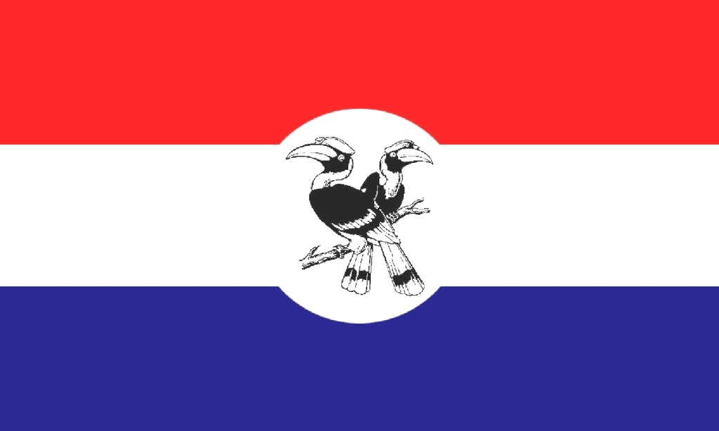 The Flag of Chin National Front